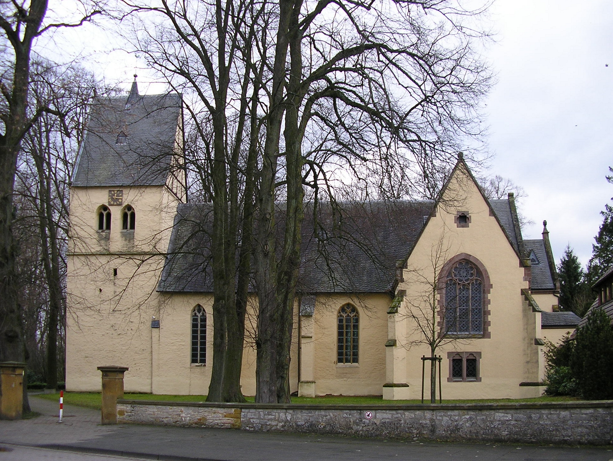 St. Marien church in Spenge-Wallenbrück, District of Herford, North Rhine-Westphalia, Germany.